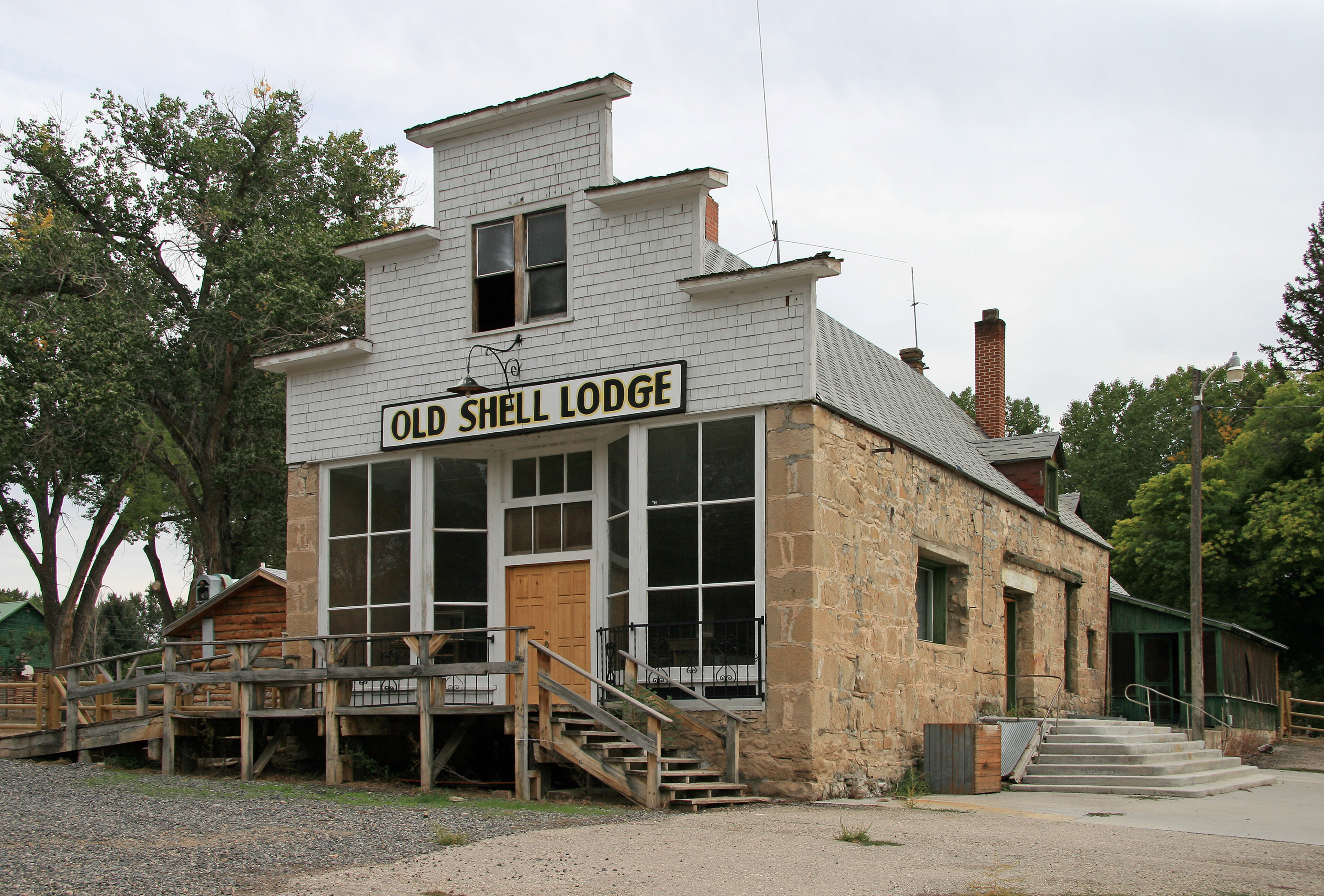 Old Shell Lodge, Shell, Wyoming, USA in 2007